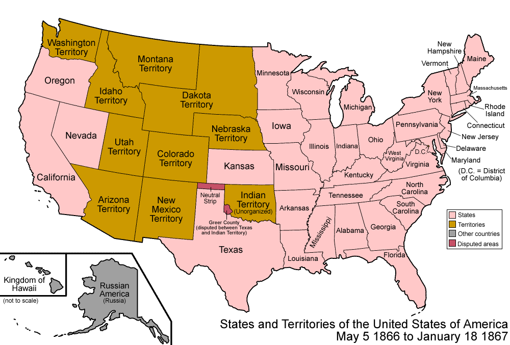 Map of the states and territories of the United States as it was from 1866 to January 1867. On May 5 1866, a portion of Utah Territory was given to Nevada. On January 18 1867, the northwestern triangle of Arizona Territory was given to Nevada.